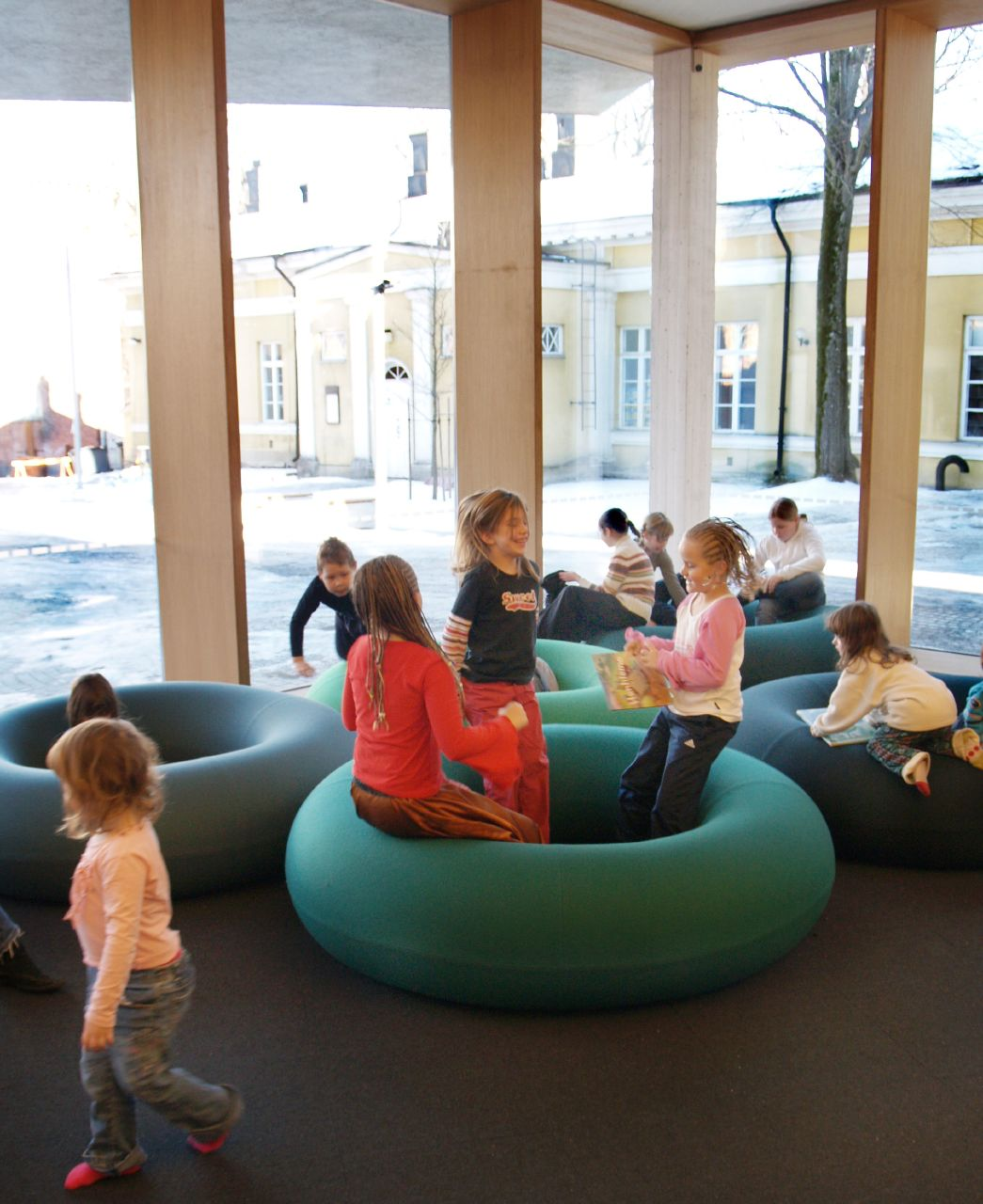 Children at Turku main library in Turku, Finland